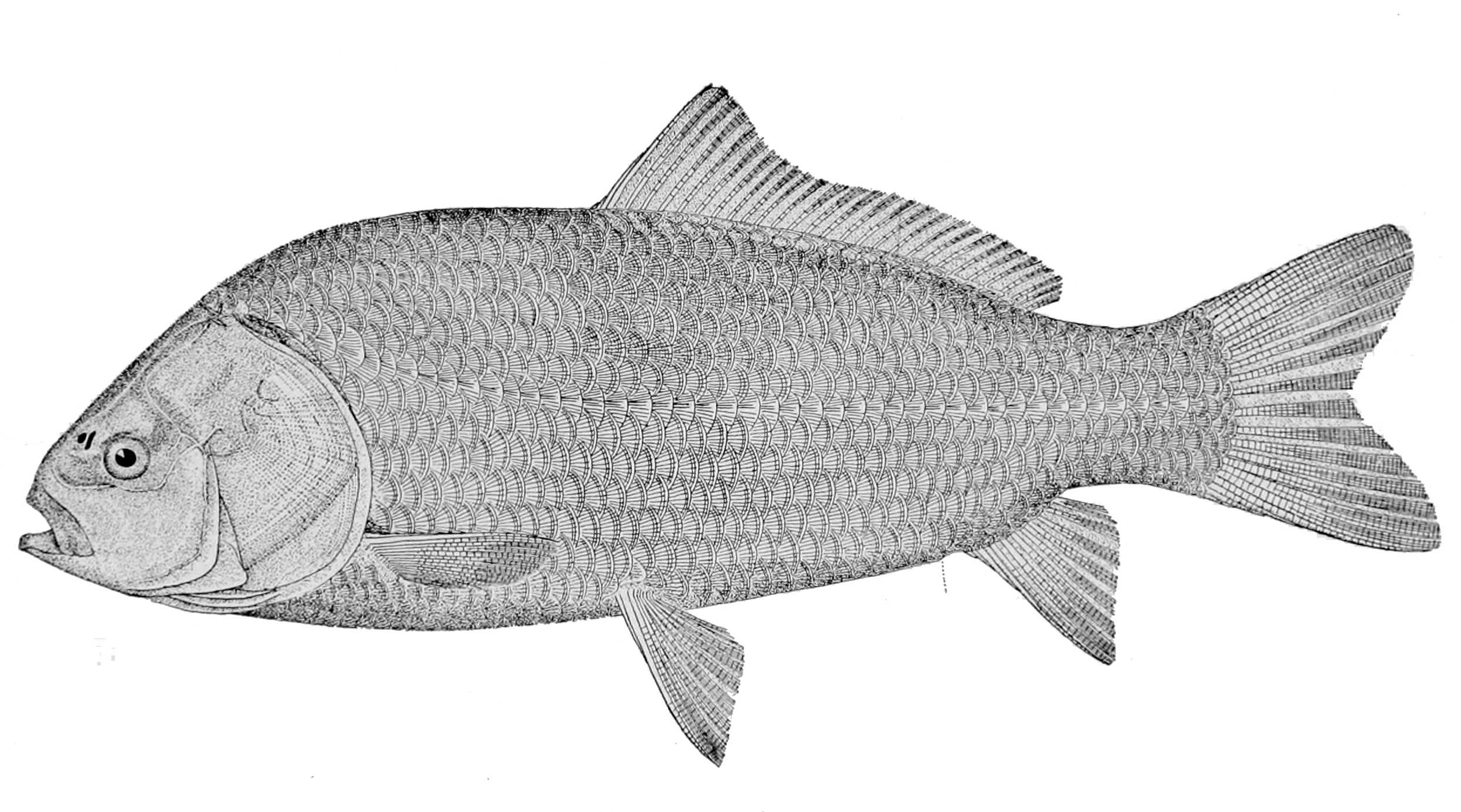 Ictiobus cyprinellus